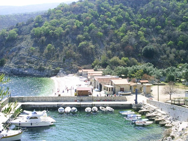 A town of Beli at the Cres Island, Croatia